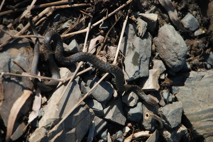 Image of Keelback snake (Tropidonophis mairii) during Brisbane, Australia floods